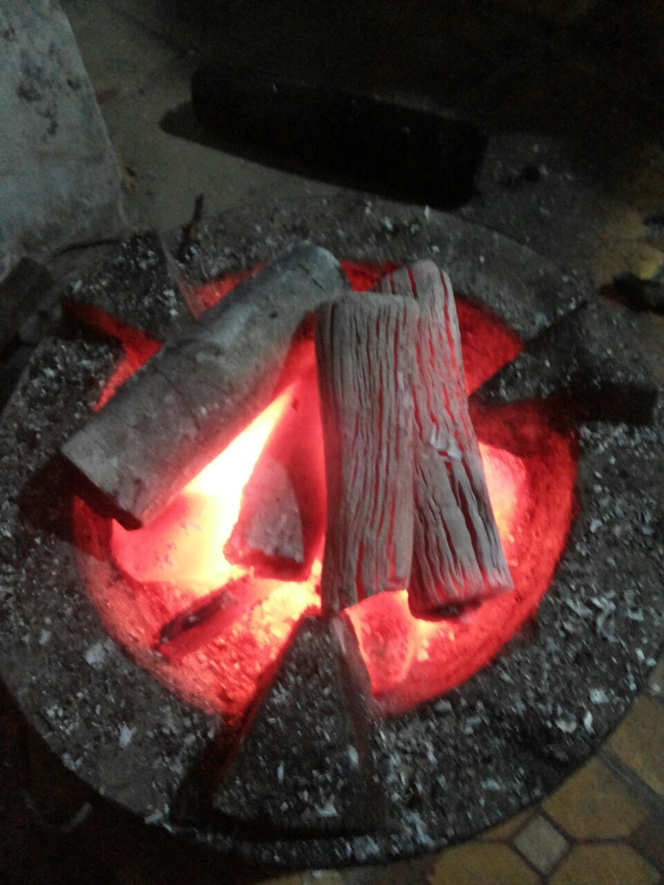 No smoke, no smell, no explosion. - Calorific value: 7543 KCal/kg. - Carbon content: 93.45%. - Moisture: 5.15%. - Ash content: 2.12%. - Sulfur content: 0.12%. - Dry Volatile matter content: 4.44%. - Burning time: long lasting more than 4 hours.